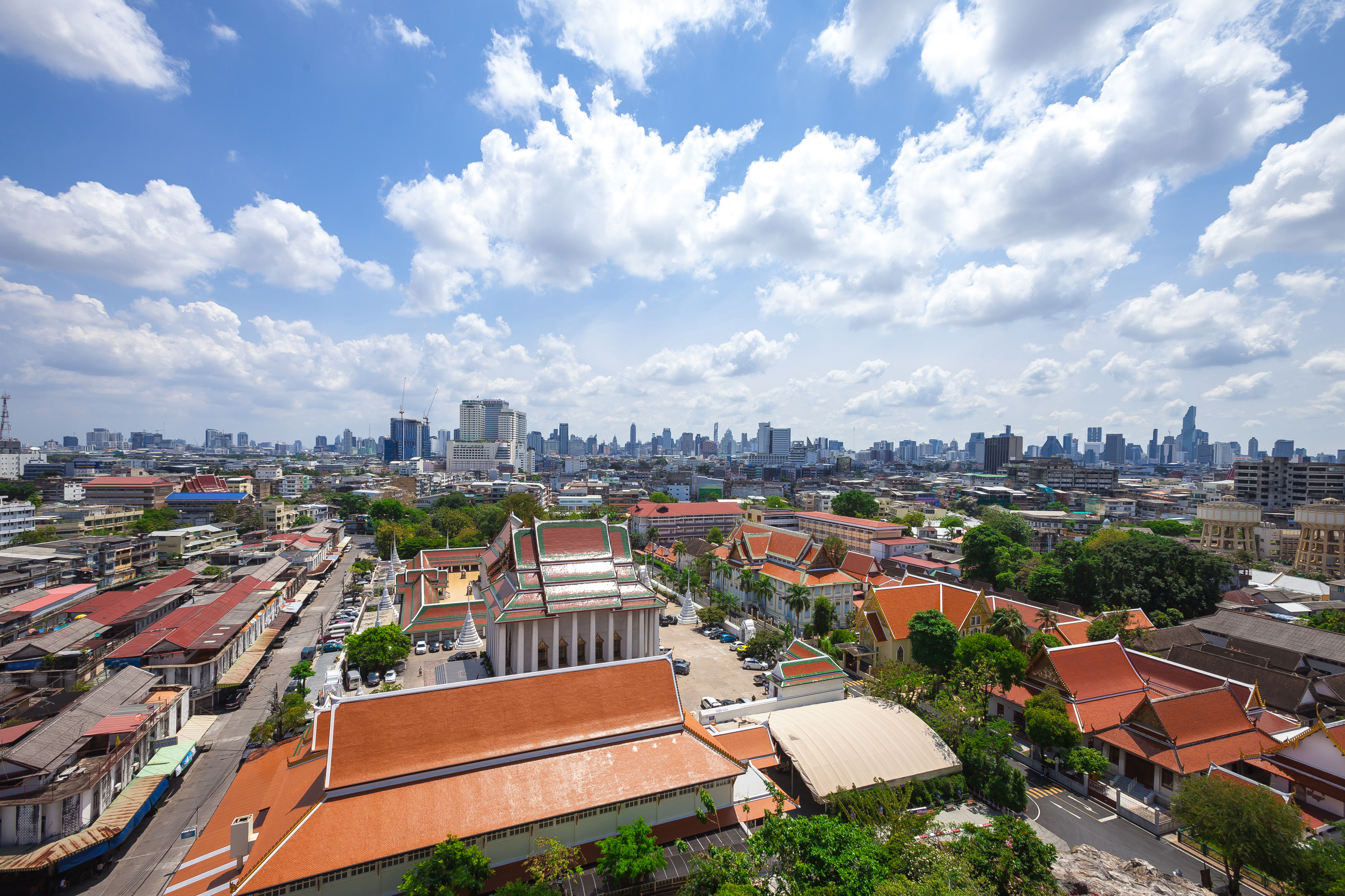 View of Khet Pom Prap Sattru Phai, Bangkok